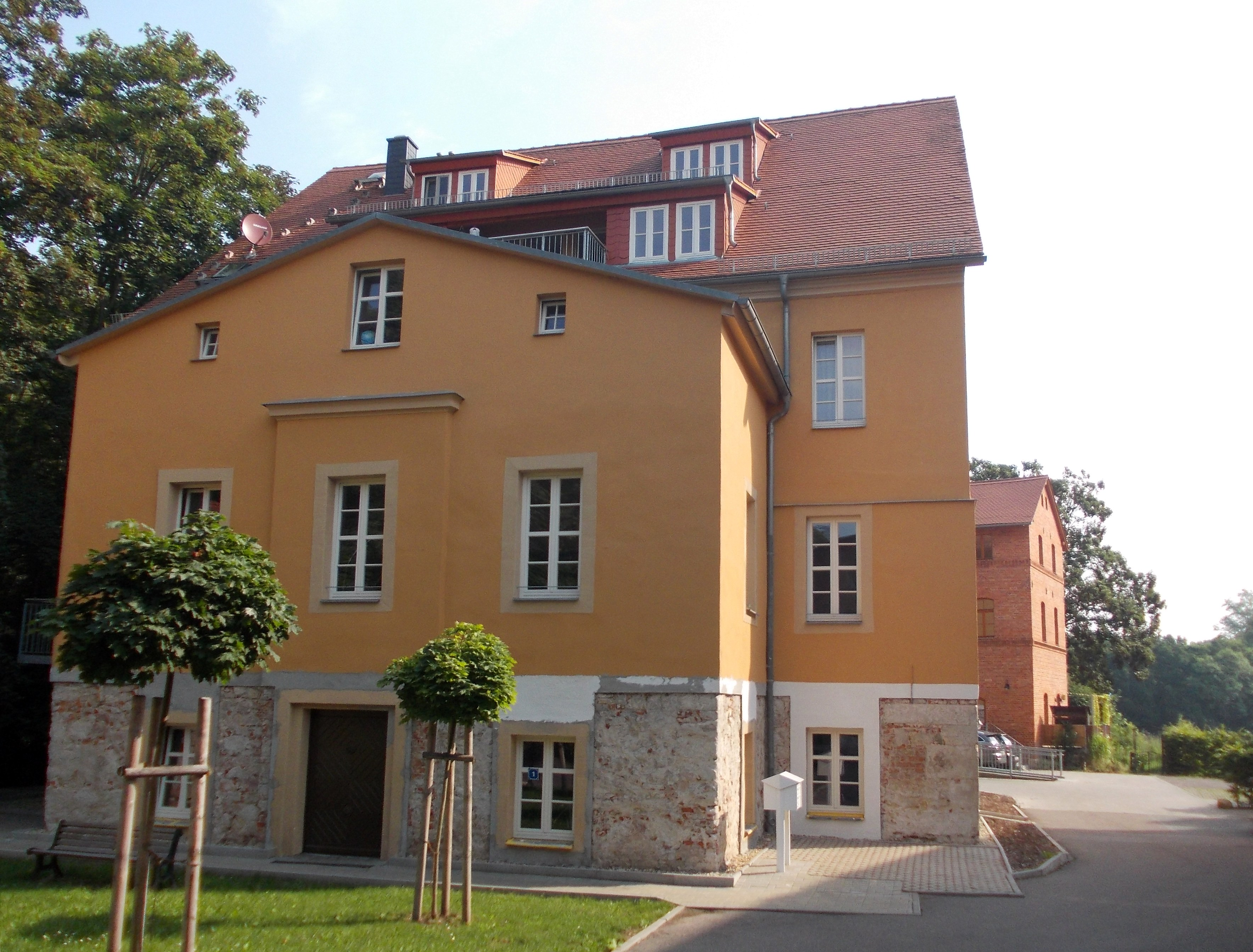 Gimritz Estate on Peissnitz Island in Halle/Saale (Saxony-Anhalt), today nursing home